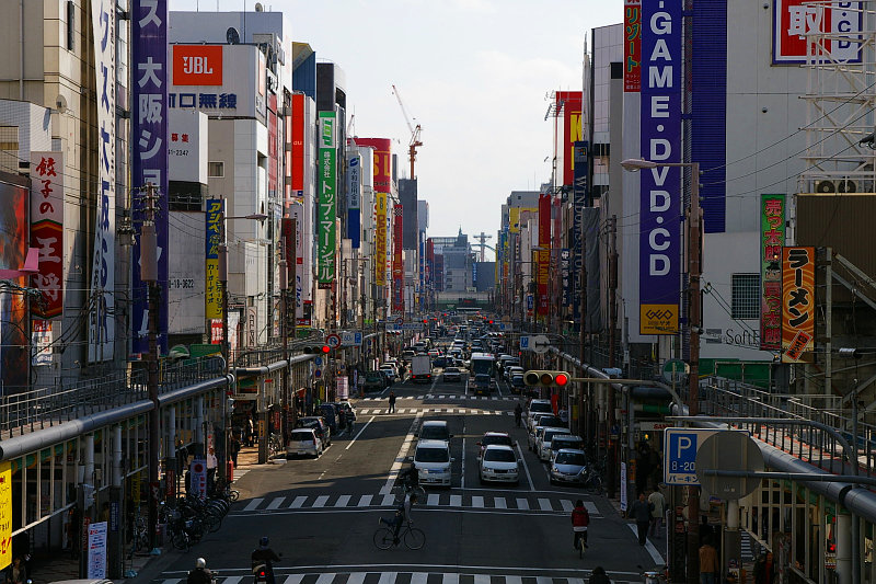 Electoric Market - Denden Town, Naniwaku, Osaka City, Japan.